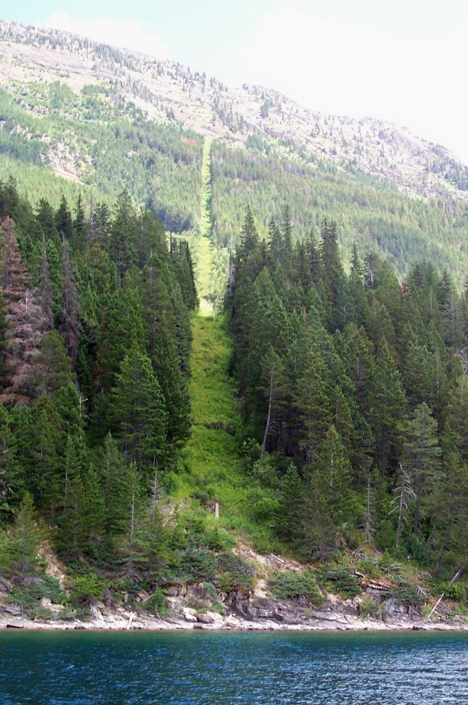 49th parallel north at Waterton Lake eastern shore line, cleared strip of land along the U.S./Canada border.